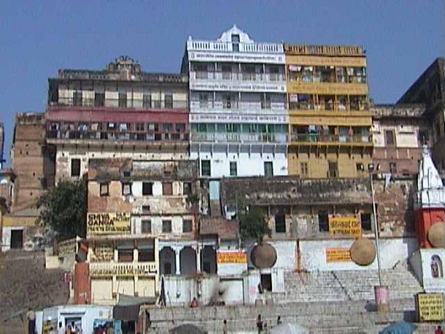 Hindu culture, have attributed supreme importance to the preservation of tradition Classical civilizations, and especially the Indian one, have attributed supreme importance to the preservation of tradition. Its central idea was that social institutions, scientific knowledge and technological applications need to use "heritage" as a "resource". Using contemporary language, we would say that ancient Indians considered, as social resources, both economic assets (like natural resources and their exploitation structure) and factors promoting social integration (like institutions for preserving knowledge and maintaining civil order). Ethics considered that what had been inherited should not be consumed, but should be handed over, possibly enriched, to successive generations. This was a moral imperative for all, except in the final life stage of sannyasa